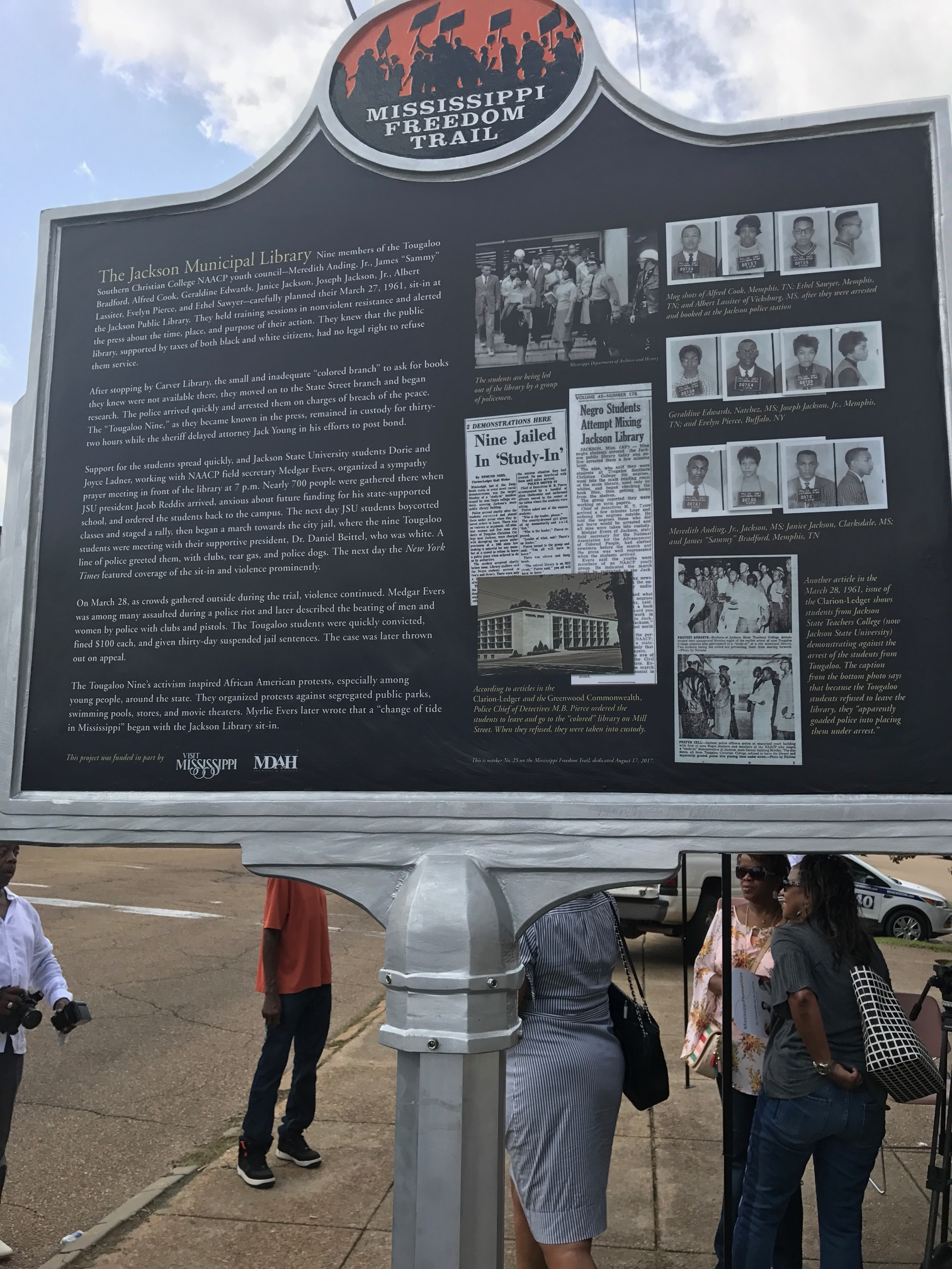 This sign memorializes the Tougaloo Nine, their "Study-In" at the Jackson Municipal Library, and the subsequent protests caused by their arrest.